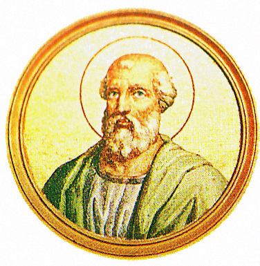 Portrait of Pope Linus un the Basilica of Saint Paul Outside the Walls, Rome